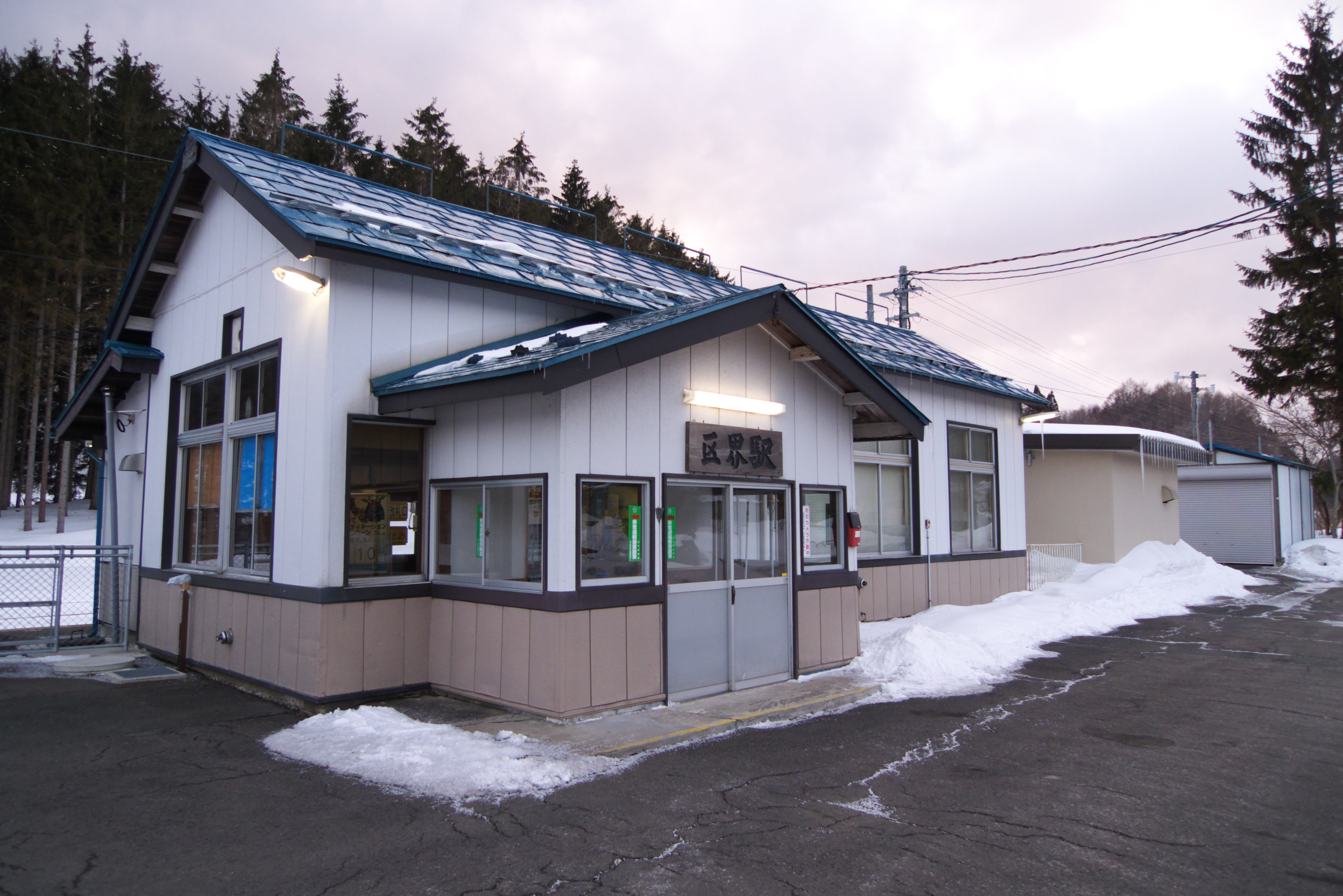 JR East Kuzakai Station on the Yamada Line